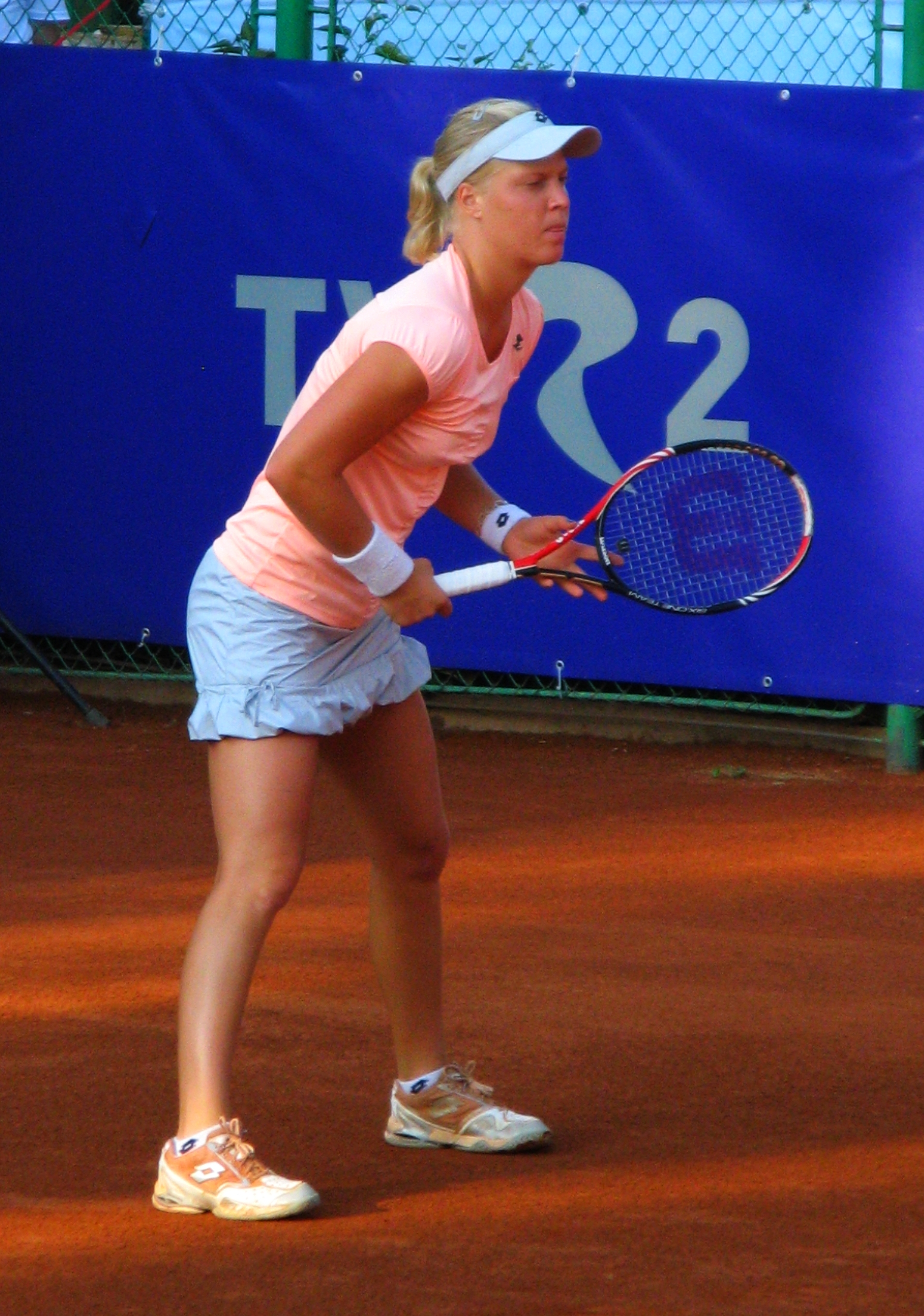 Maša Zec Peškirič playing singles in the first round at the 2011 BCR Open Romania Ladies